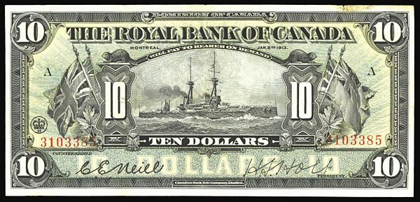 Obverse of the 1913 Canadian $10 bill, featuring a British Bellerophon-class dreadnought